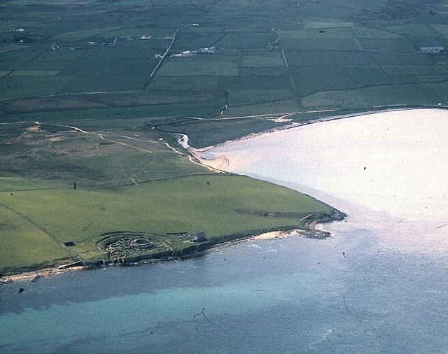 Broch of Gurness On The Aiker Ness peninsula, with the Sands of Eviebehind.